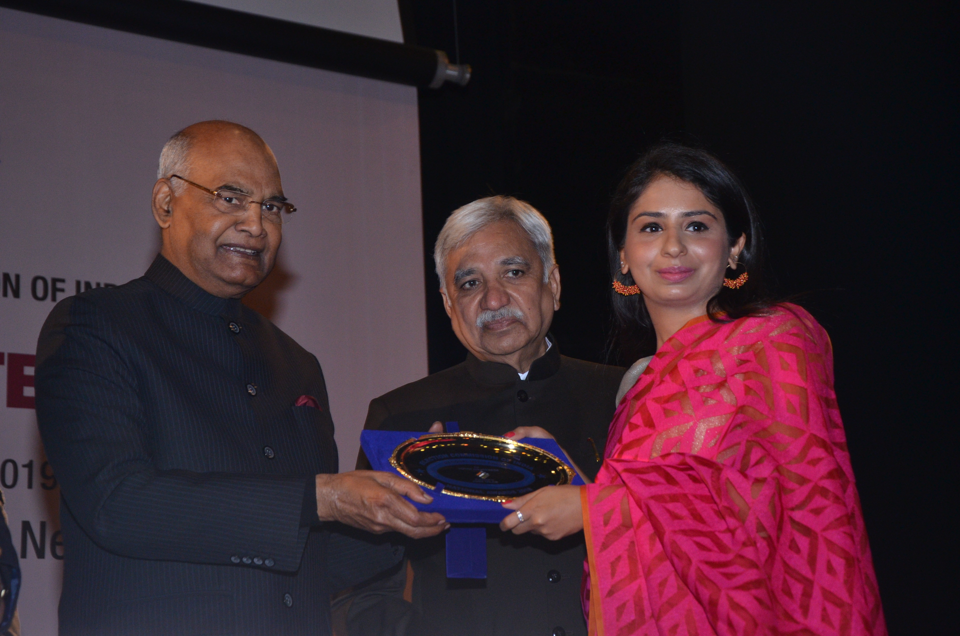 National Media Award 2019, President Ram Nath Kovind honoring to Josh Talks co-founder Supriya Paul.